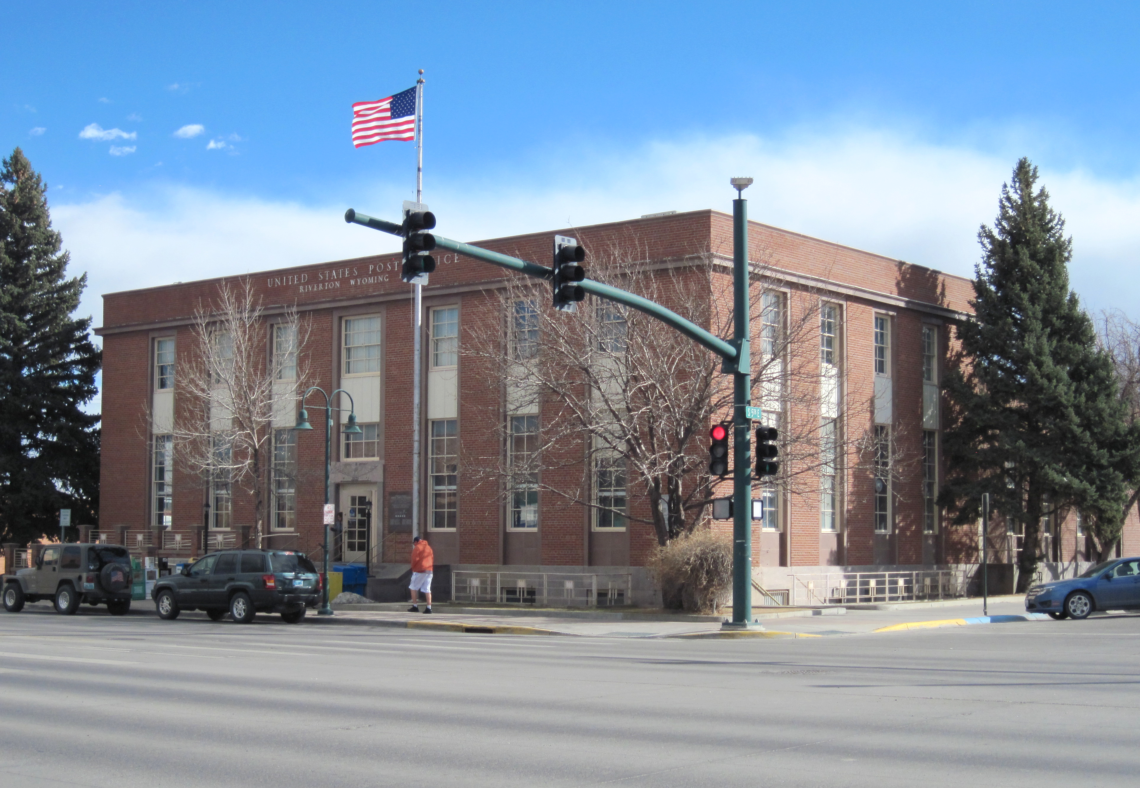 The US Post Office in downtown Riverton, Wyoming, built in 1940. This was one of the many post offices built across the nation during this period; many of them, including this example, featured lobby art installed as part of FDR's New Deal program.